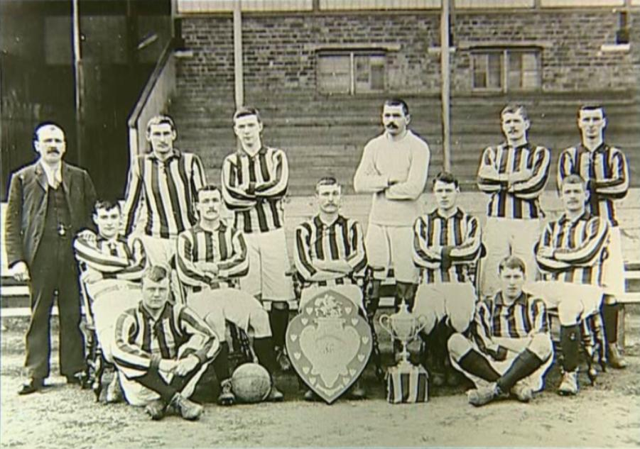 West Bromwich Albion F.C. team line-up 1901-02.